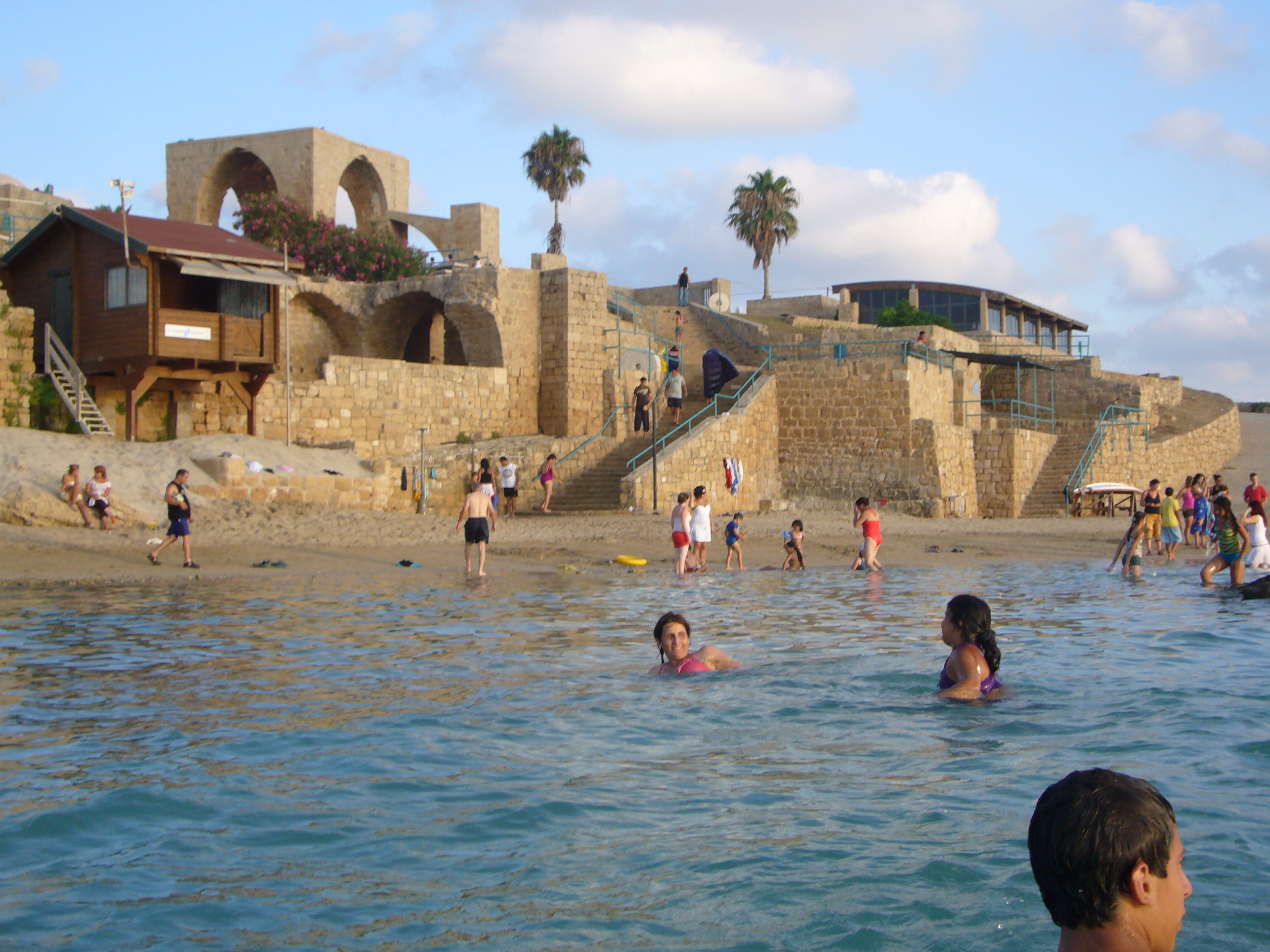 Az-Zeeb's shore